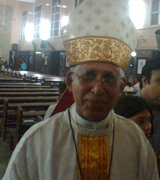 Photo of Bishop Agnelo Rufino Gracias, Auxilliary Bishop of the Archdiocese of Bombay.